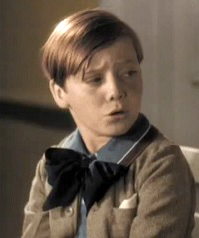 A screenshot of Jerry Tucker in the 1936 public domain film Captain January.